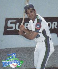 Professional baseball player Pat Gomez